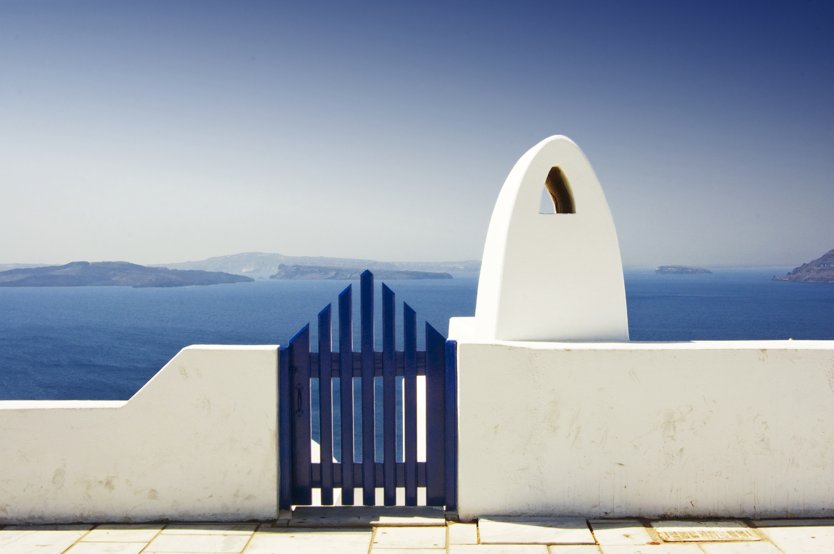 Door to the islands